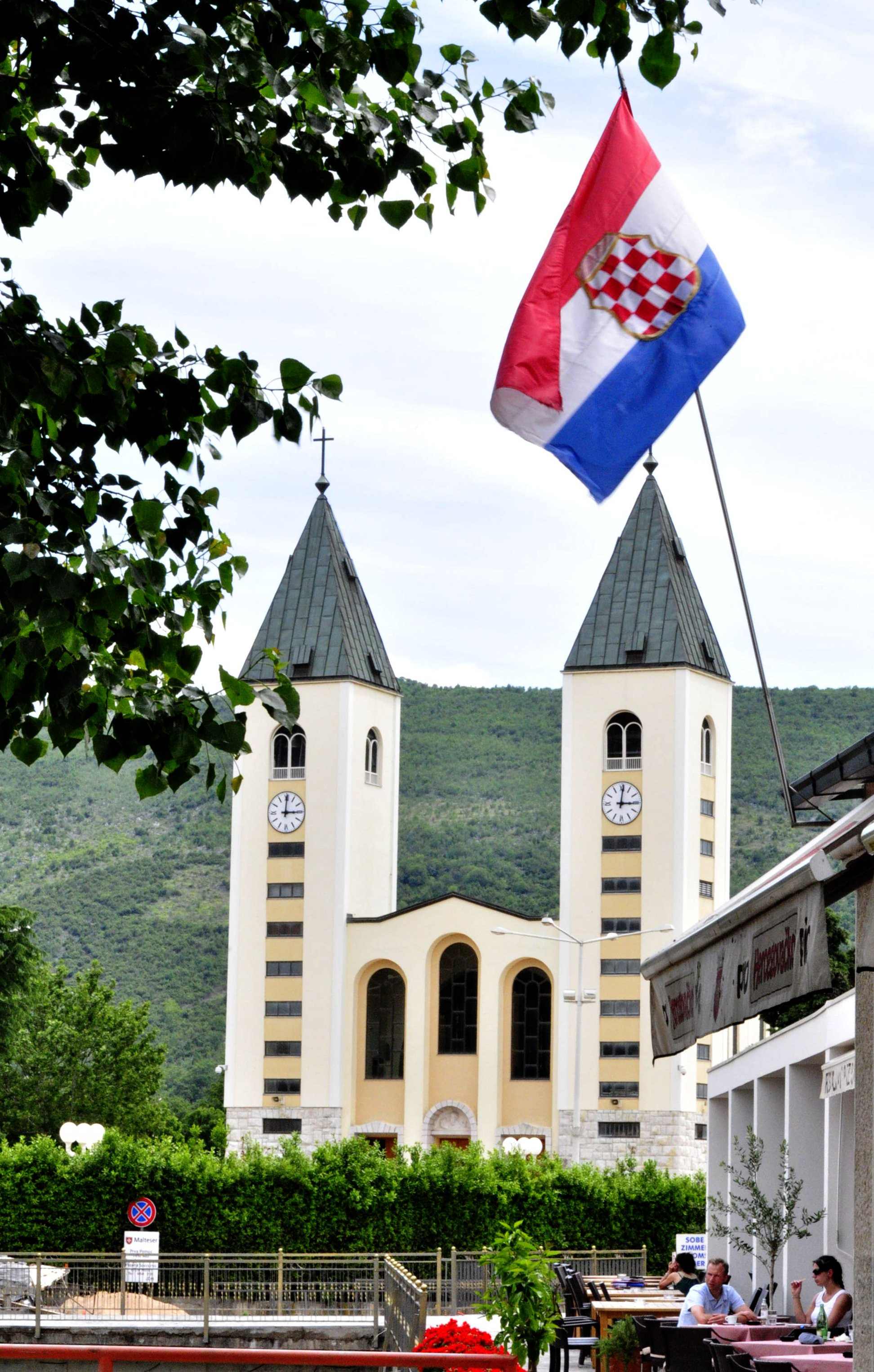 St. Jacob church in Međugorje, Bosnia.